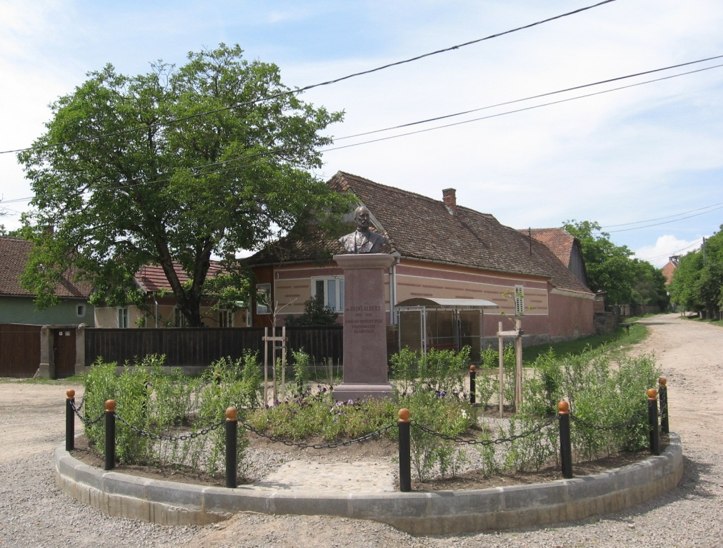 Covasna County ,Calnic, Bedő Albert statue